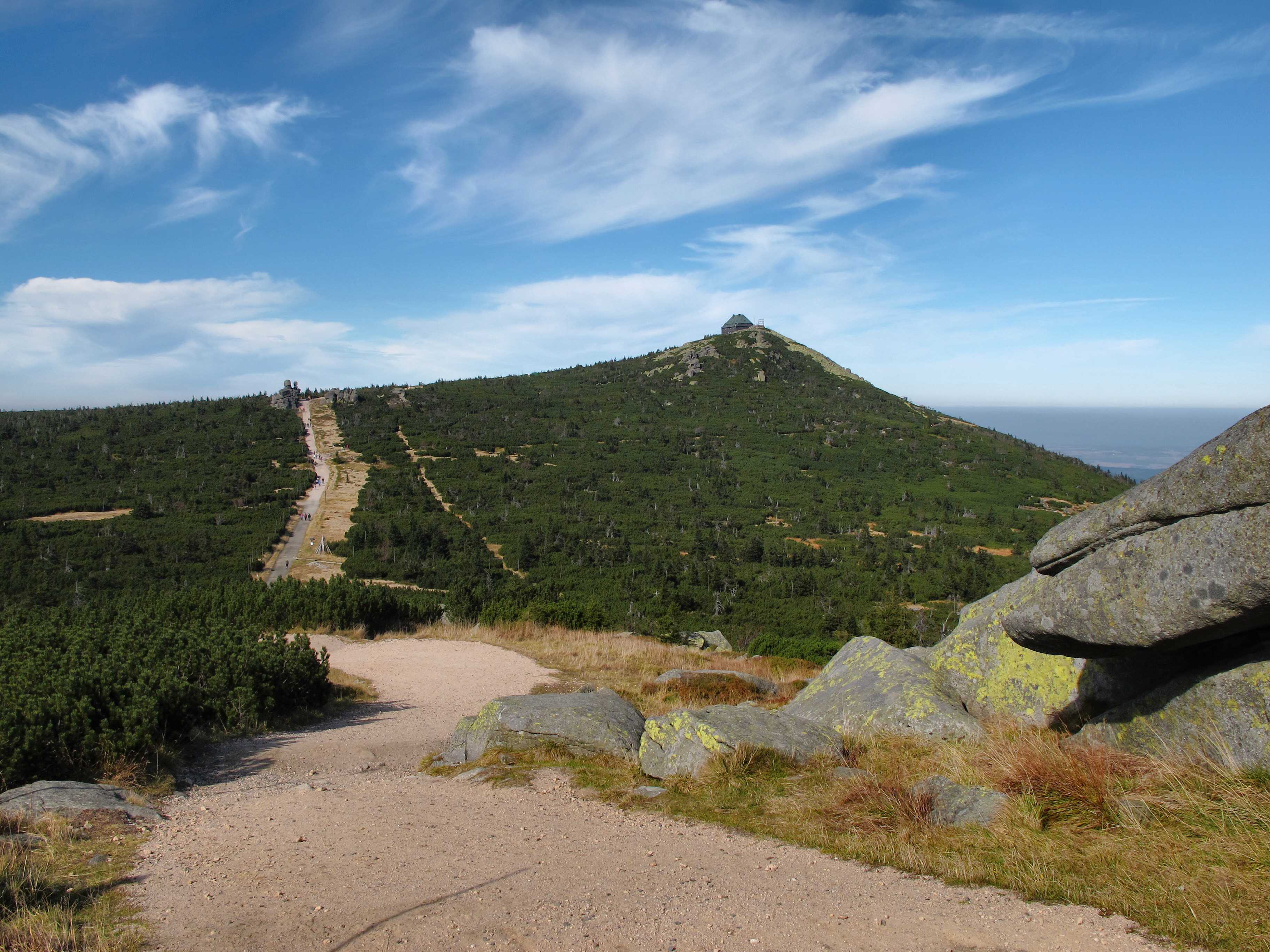 Szrenica from the Tvarožník rock in the Krkonoše Mountains